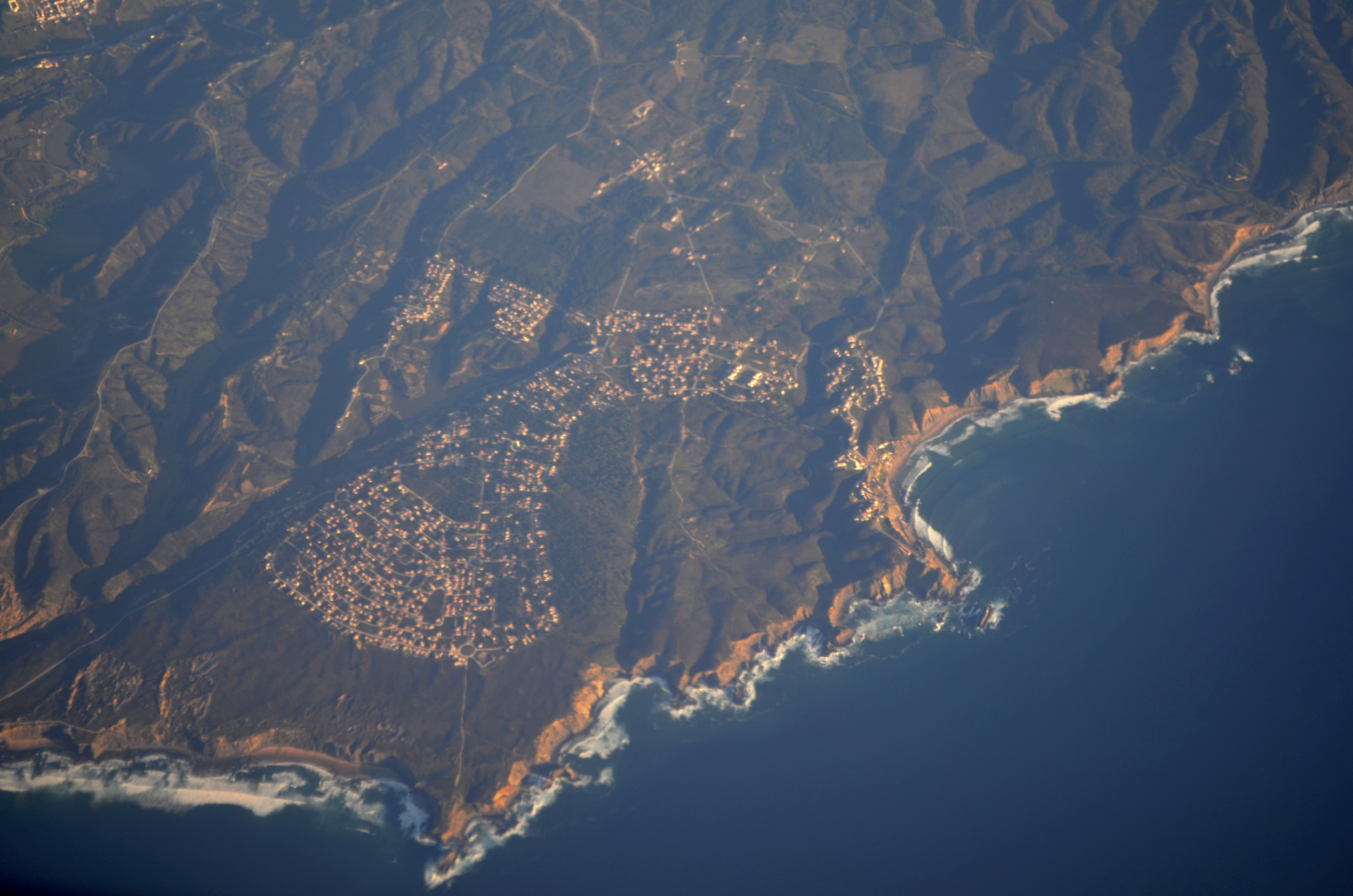 Coast of Portugal near Aljezur